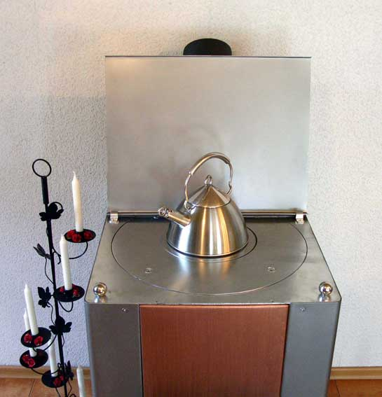 oven and hearth, capable to heat an entire house